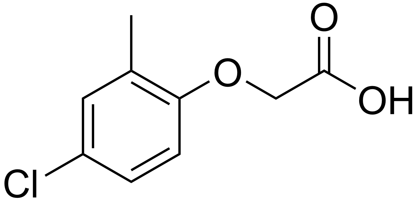 chemical structure of MCPA created with ChemDraw